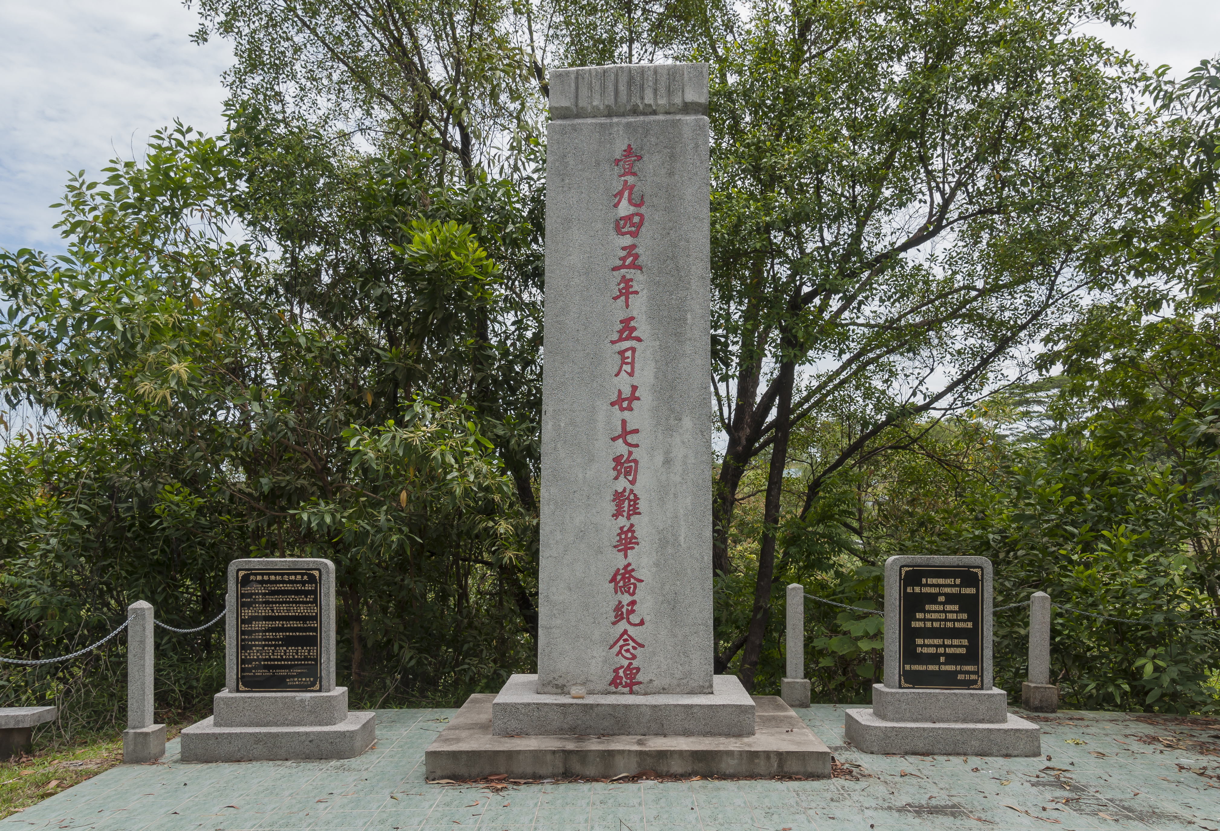 Sandakan, Sabah: Chinese Memorial for the Massacre of May 27, 1945